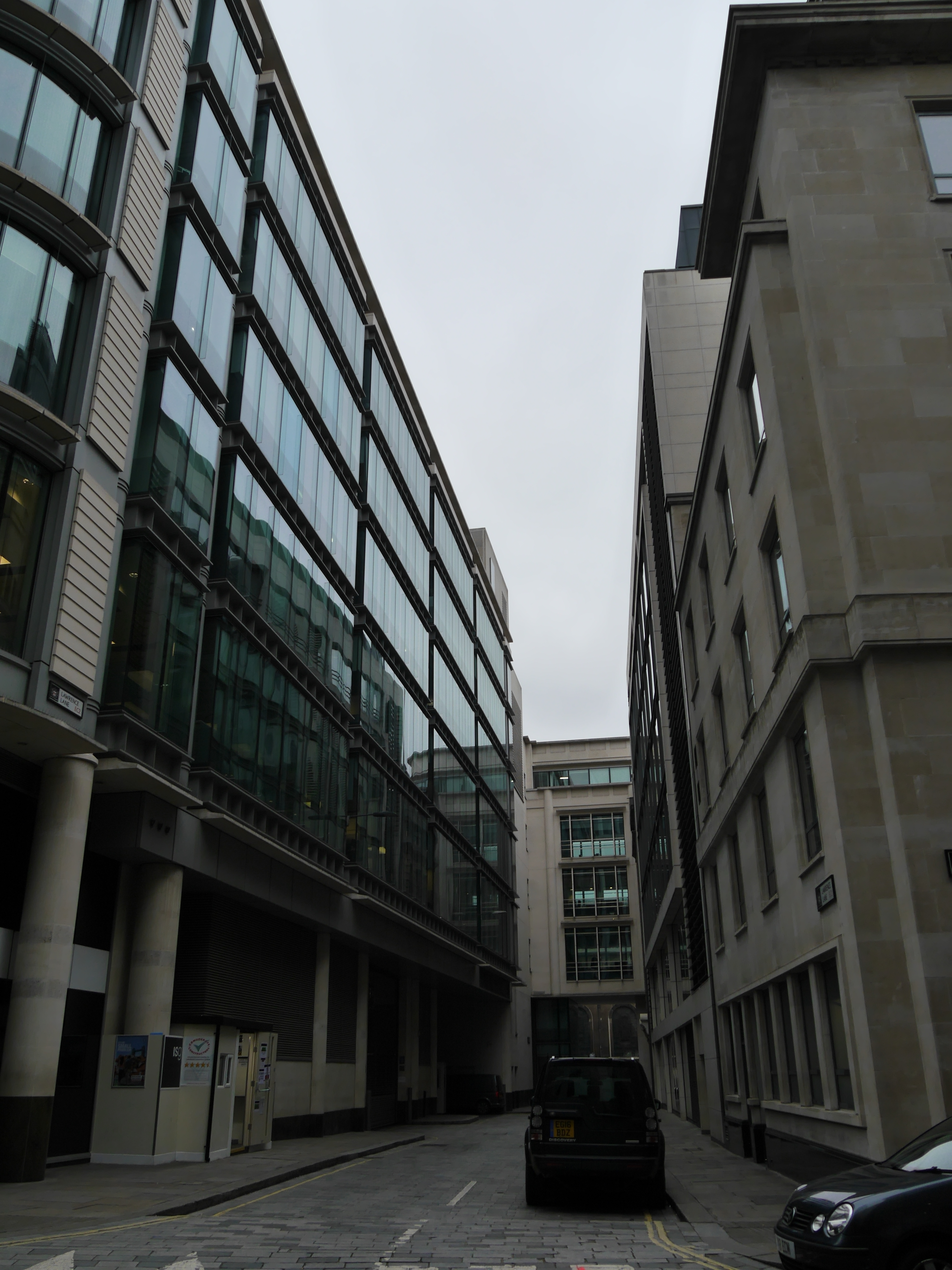 Lawrence Lane, January 2018